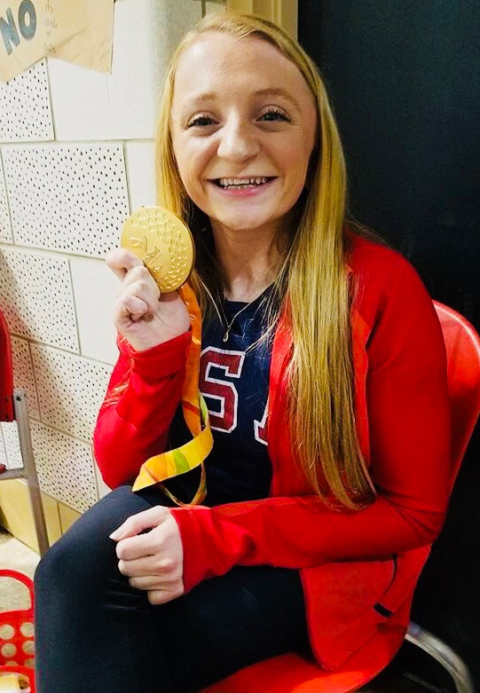 Coan, February 2018